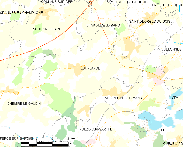 Map of French municipality